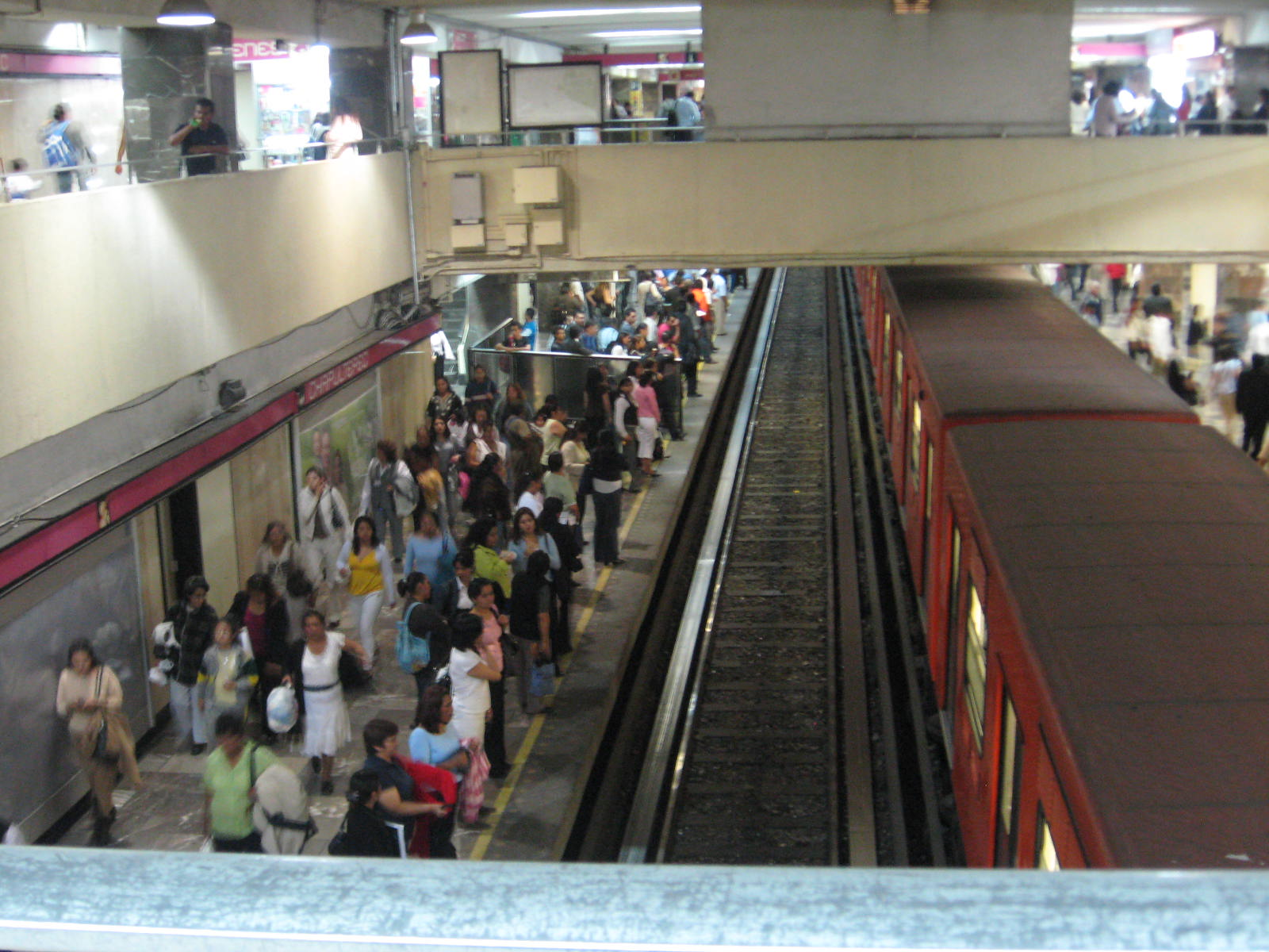 View of tracks inside Metro Chapultepec on Line 1 of the Mexico City Metro system